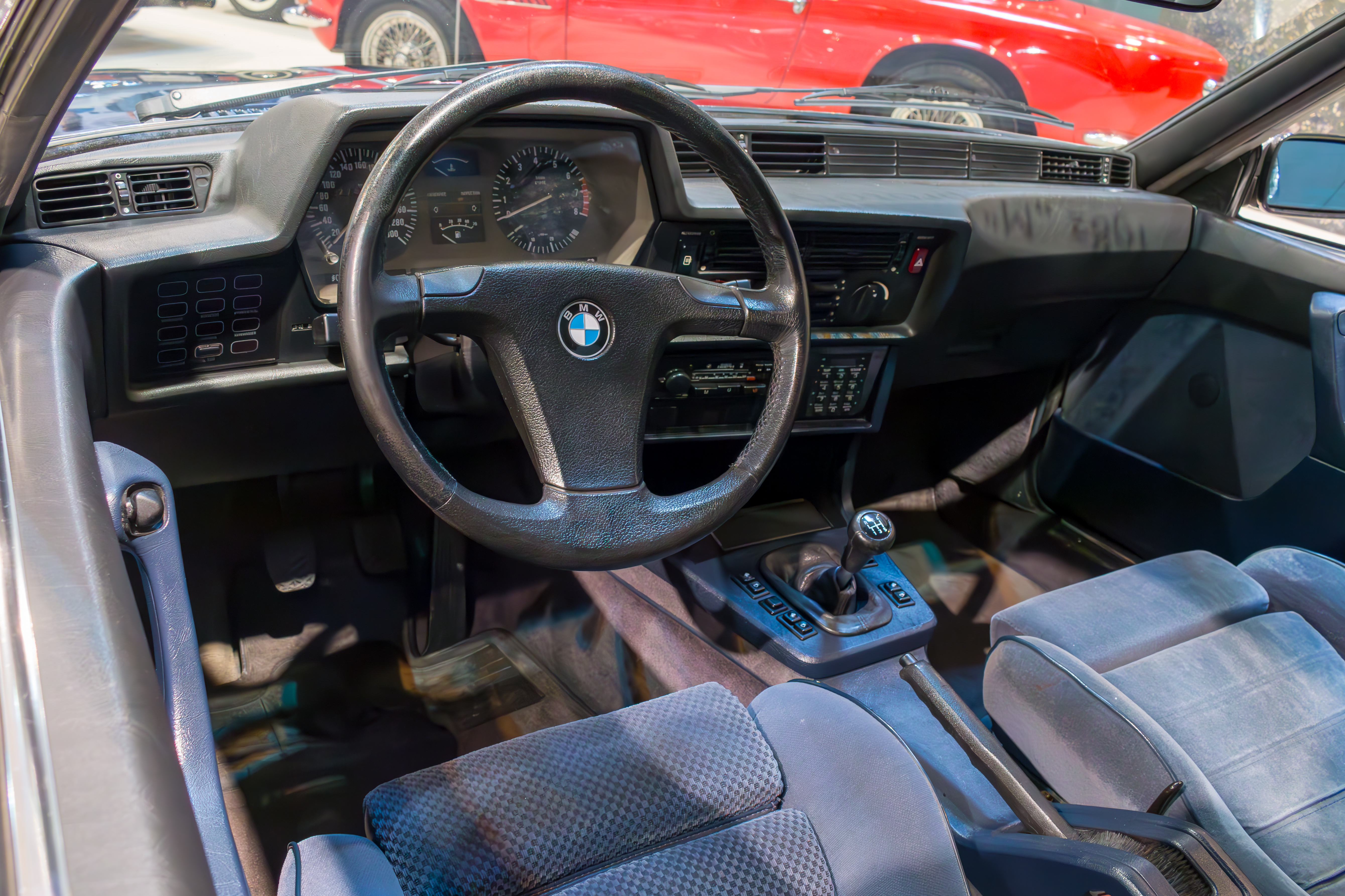 BMW, Techno-Classica 2018, Essen